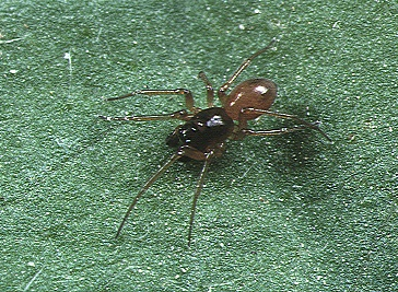 female Ummeliata insecticeps from Okinawa.